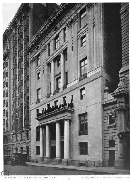 Picture of Harmonie Club circa 1905